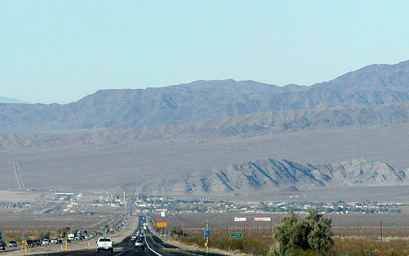 Photo of Baker, California seen from Interstate 15